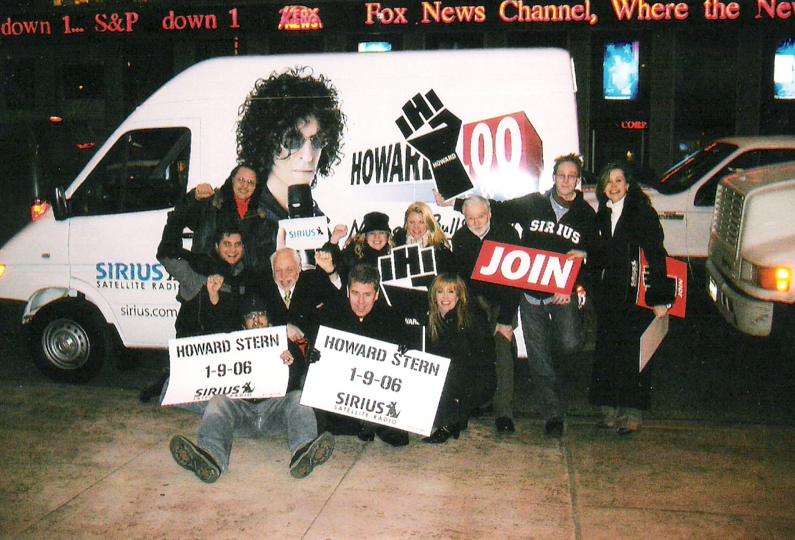 The Original Howard 100 News Team, Sirius Satellite Radio